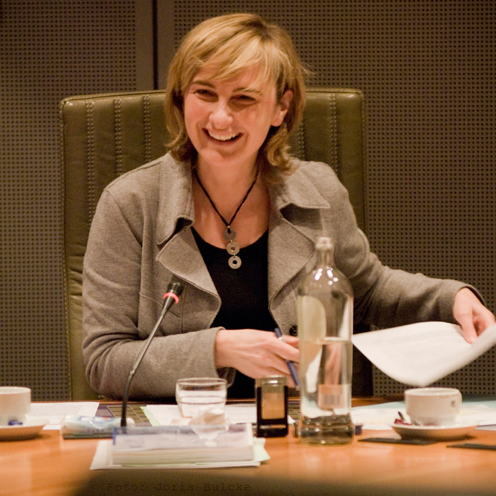 Picture Hilde Crevits